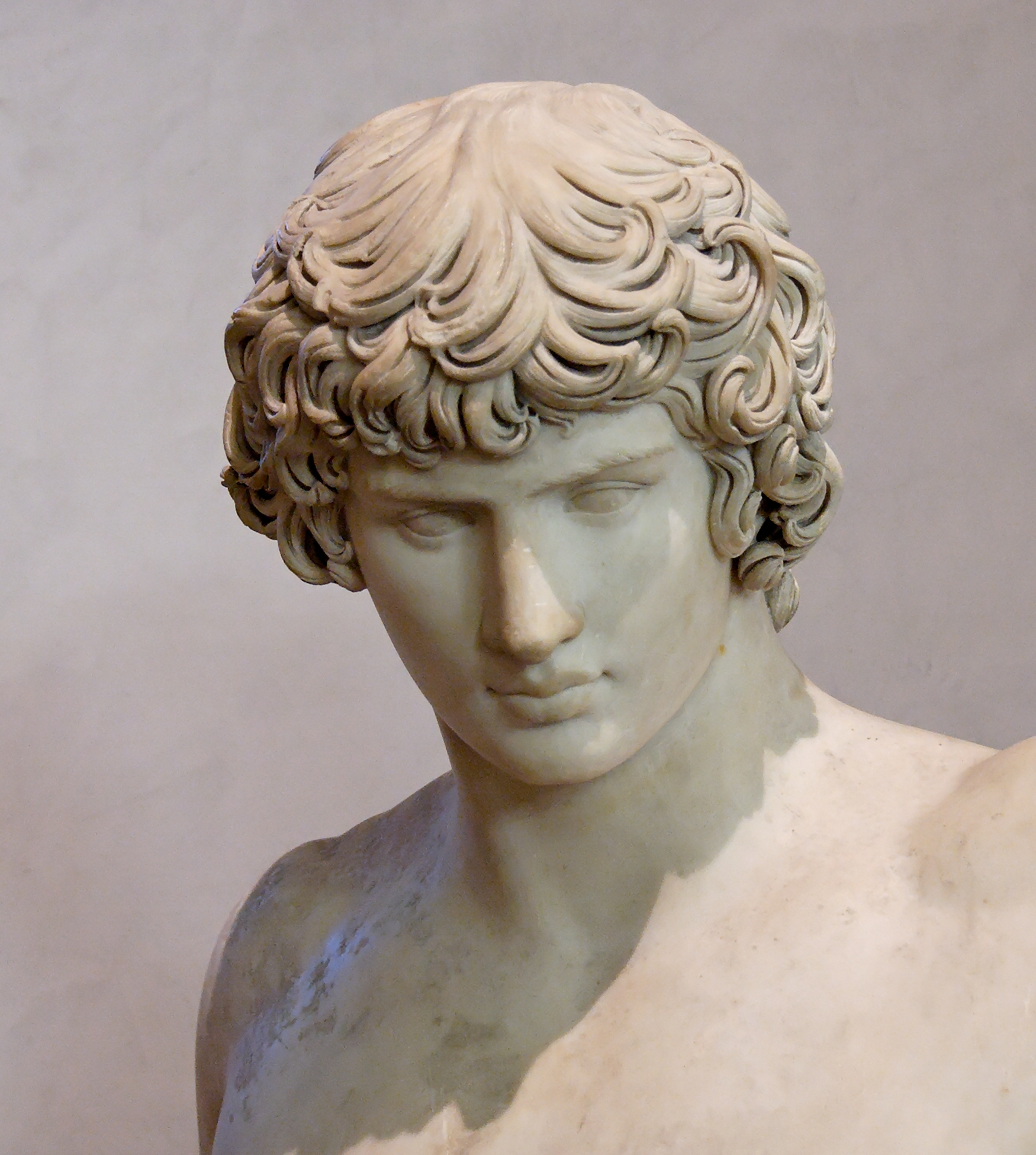 Bust of Antinoüs (117–138 CE) known as the Antinoüs of Ecouen. Marble, 18th century copy from an original coming from the villa Adriana, now in the Prado Museum.